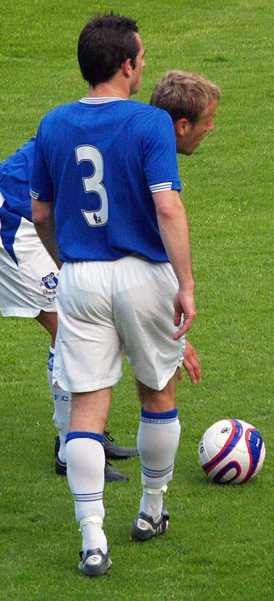 Leighton Baines, English defender